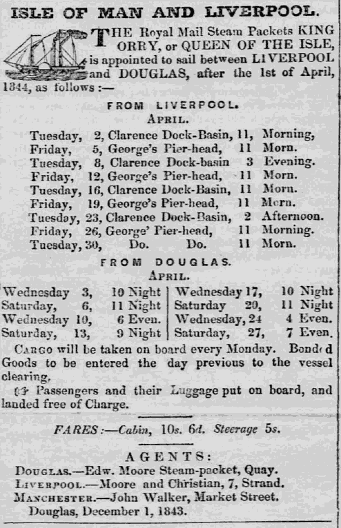 Newspaper advertisement of passage on board Queen of the Isle and King Orry.